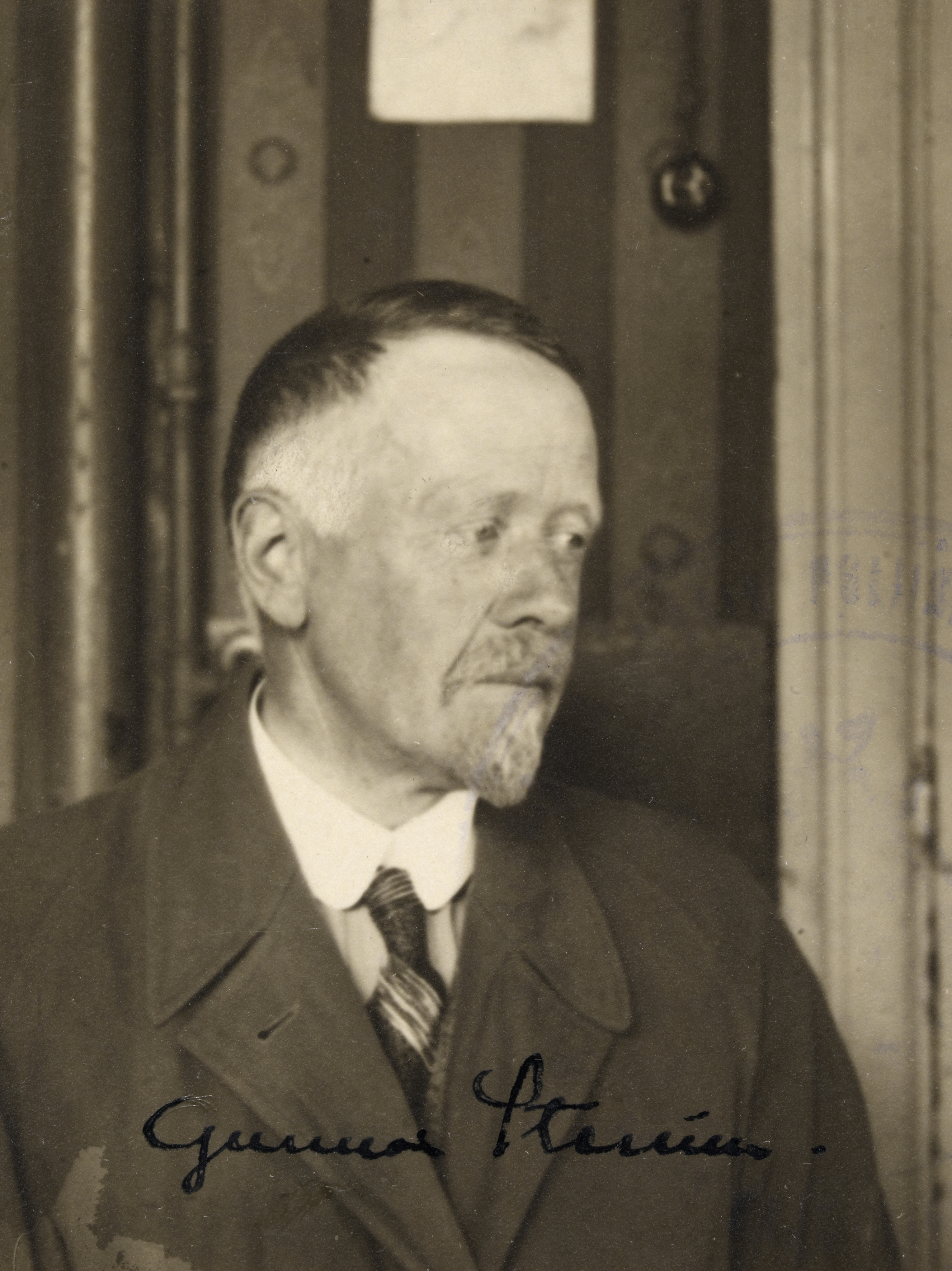 Finnish architect Gunnar Stenius